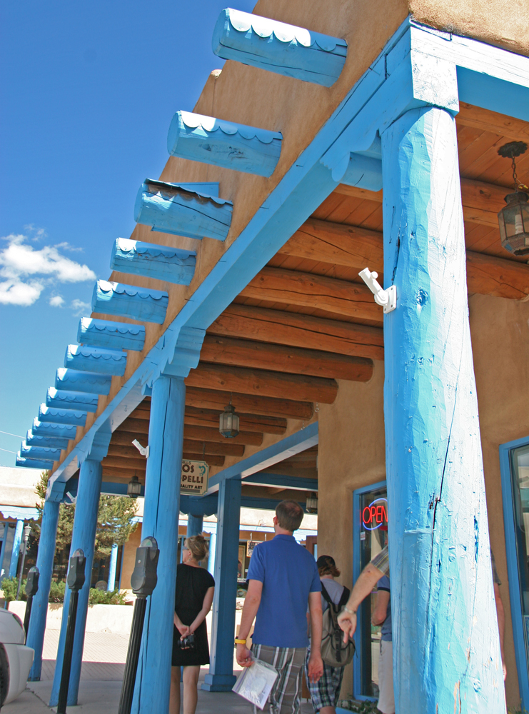 Pueblo revival style building at the Taos Plaza, New Mexico